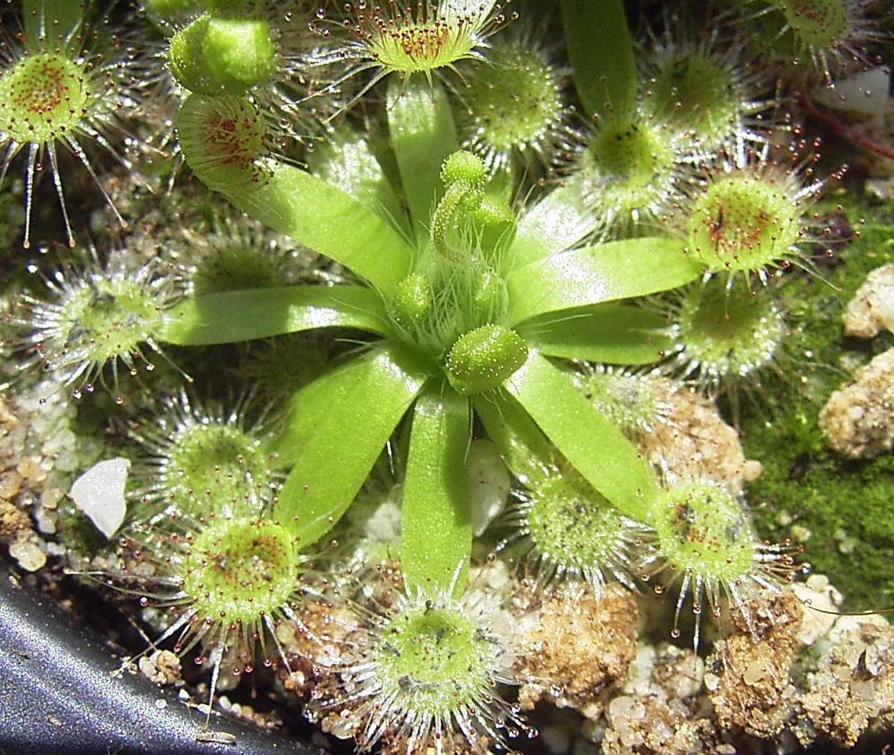 Drosera pulchella Habitus Author: Denis Barthel